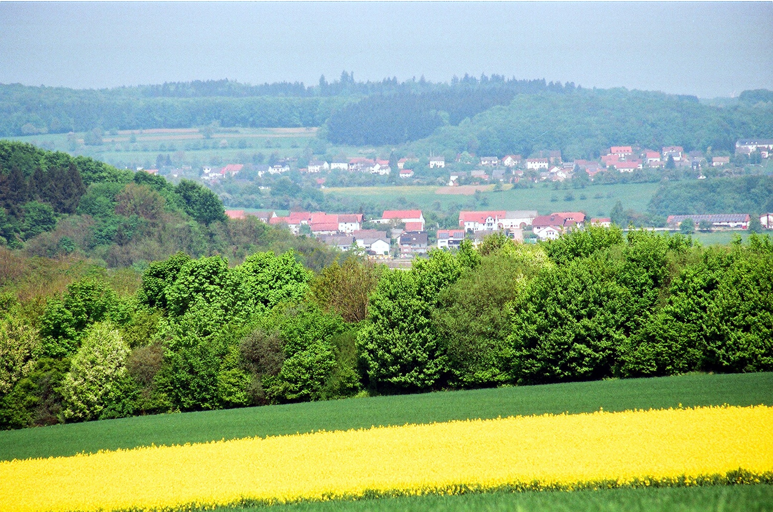 Wellingen (Merzig), view to the village, telephoto